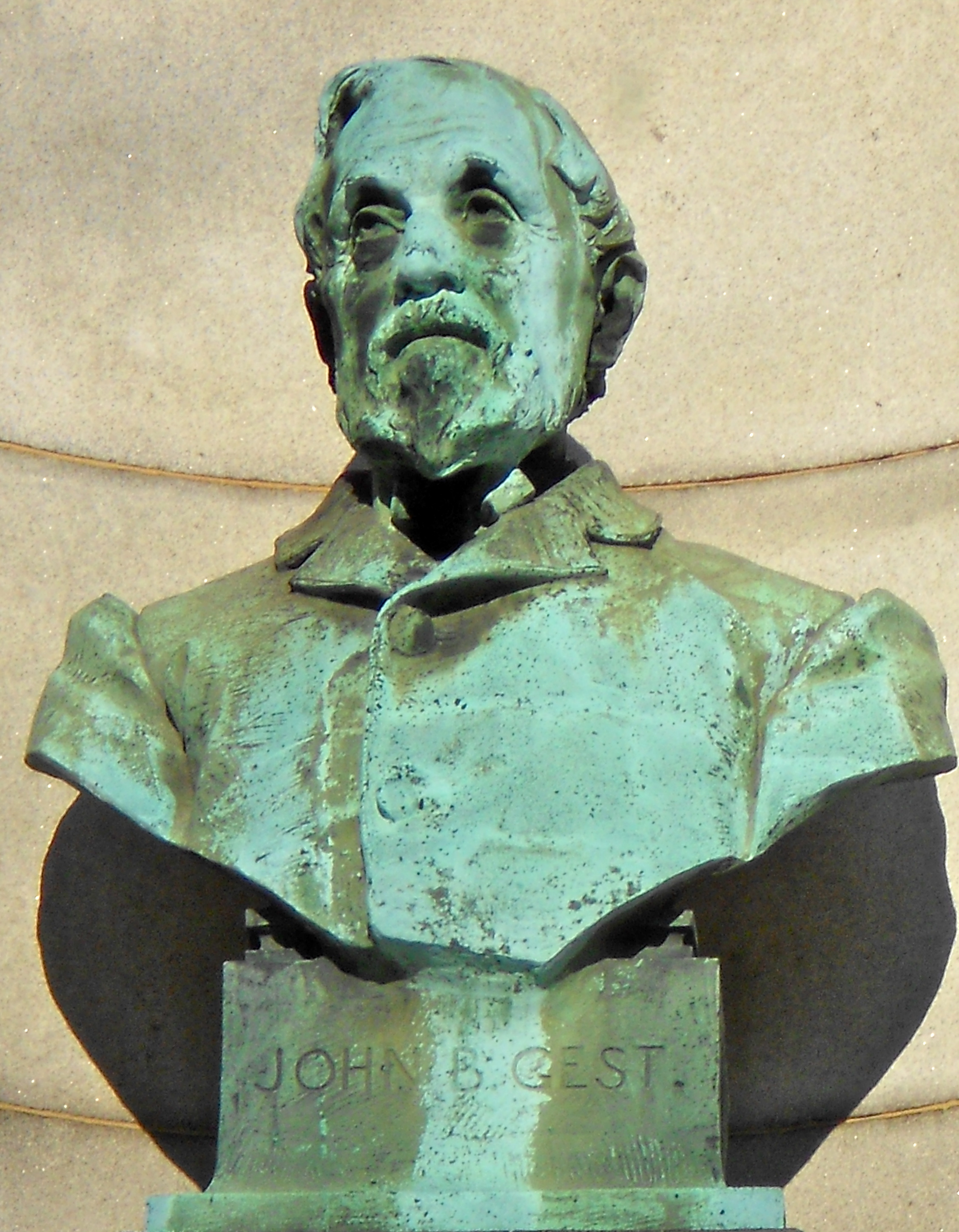 Bust of John B. Gest, lawyer to Richard Smith and executor of his estate and President of Fidelity Insurance Trust and Safe Deposit Company. Smith's estate funded the Smith Memorial Arch. Bust located on the Smith Memorial Arch just west of the Schuylkill River in Philadelphia, Pennsylvania.